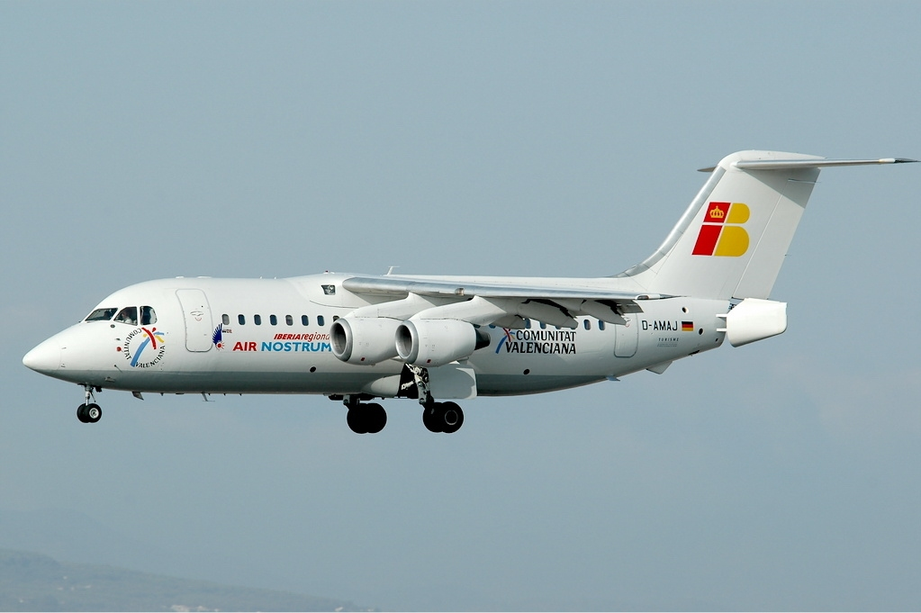 Air Nostrum British Aerospace BAe 146-200